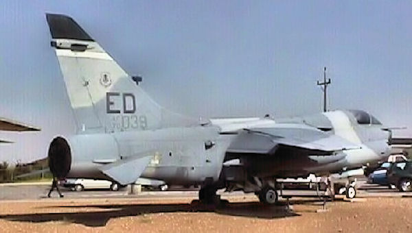 This YA-7F, S/N 70-1039, was originally manufactured as an A-7D-9 by the Vought Aeronautics Division of LTV Aerospace Corporation in Grand Prairie, Texas, and delivered to the USAF on January 18, 1972. It was assigned to the 355th Tactical Fighter Wing of the Tactical Air Command at Davis-Monthan AFB, Arizona. In January 1973 it was transferred to the 354th Tactical Fighter Wing (TAC) at Myrtle Beach AFB, North Carolina. The aircraft was assigned to the Air National Guard in January 1977, going to the 132nd Tactical Fighter Wing in Des Moines, Iowa. Then in March 1978 it was transferred to the Oklahoma Air Guard, flying with the 125th Tactical Fighter Squadron of the 138th Tactical Fighter Group in Tulsa. In July 1987 it went back to the Iowa Air Guard and the 132nd TFW in Des Moines. That December it was returned to the LTV plant at Hensley Field (Naval Air Station Dallas) in Grand Prairie, Texas, for modification into its current configuration as one of two YA-7F prototypes. Following extensive modification, in April 1990 the aircraft was ferried to the 6510th Test Wing (Air Force Systems Command) at Edwards AFB, California, for flight test and evaluation. The plane was gained by the USAF Museum System in August 1991 and assigned to Hill Aerospace Museum for static display. The other YA-7F aircraft (S/N 71-0344) is now on static display at Edwards AFB.